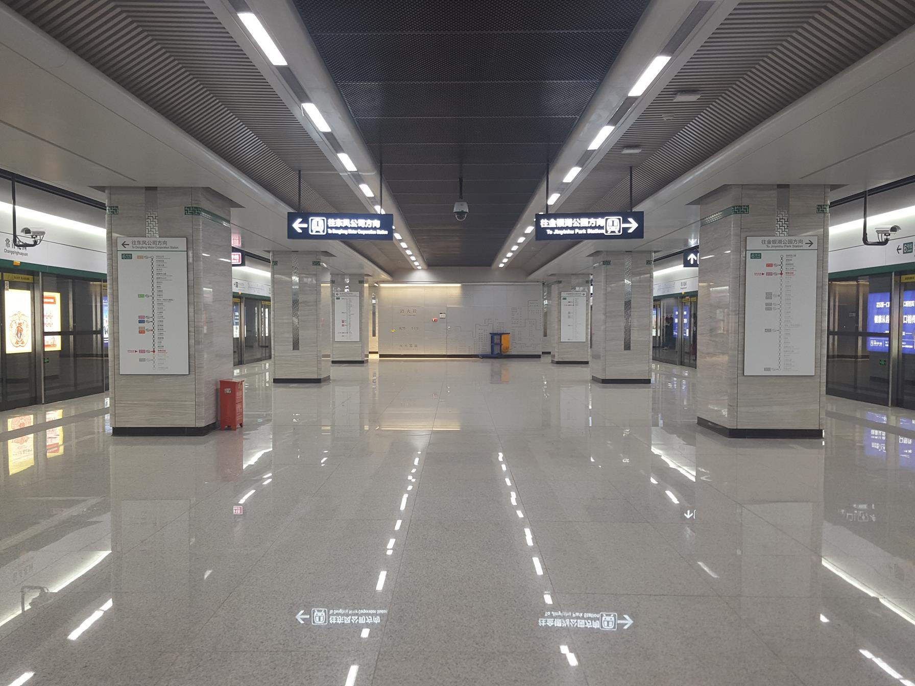 Platform of Changqinghuayuan Station, Wuhan Metro Line 6